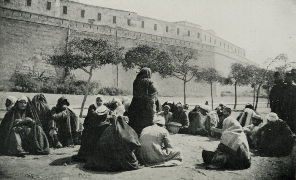 A woman standing and telling a story, while the audience sits around her. . Black-and-white photograph.